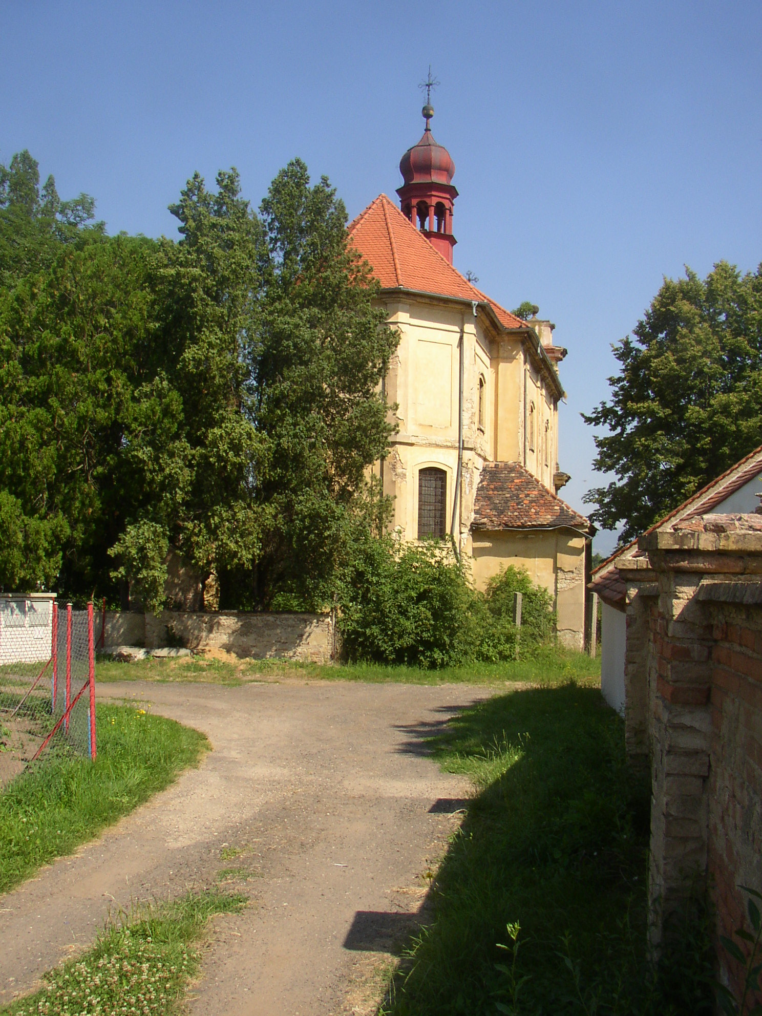 Dolánky nad Ohří, Litoměřice District. Rear view of St Giles church (1674-76), from the southeast.